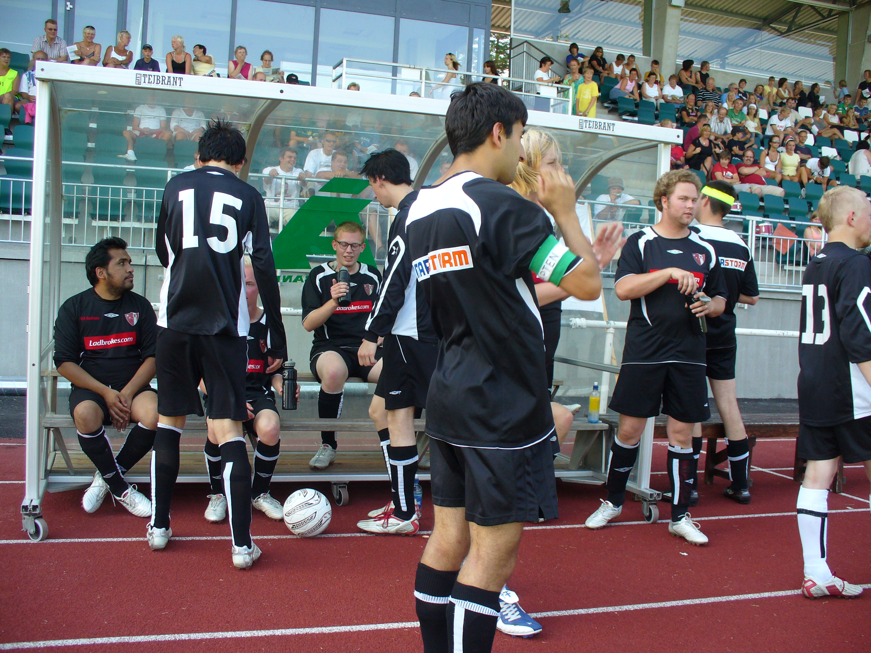 IFK Mariehamn vs FCZ, halftime